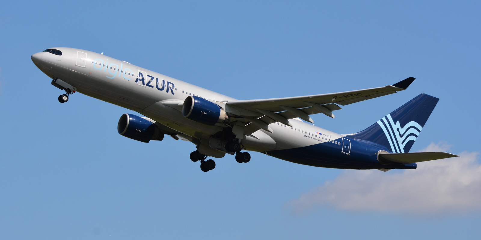 Paris-Orly Airport